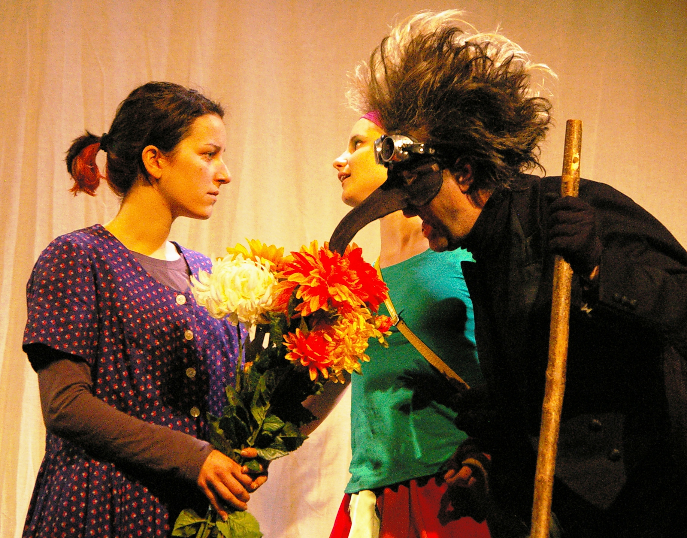 theatre for children